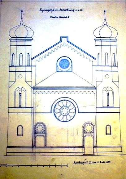 Architect drawing of the synagogue of Bad Homburg, built in 1866, destroyed by the nazis in 1938.